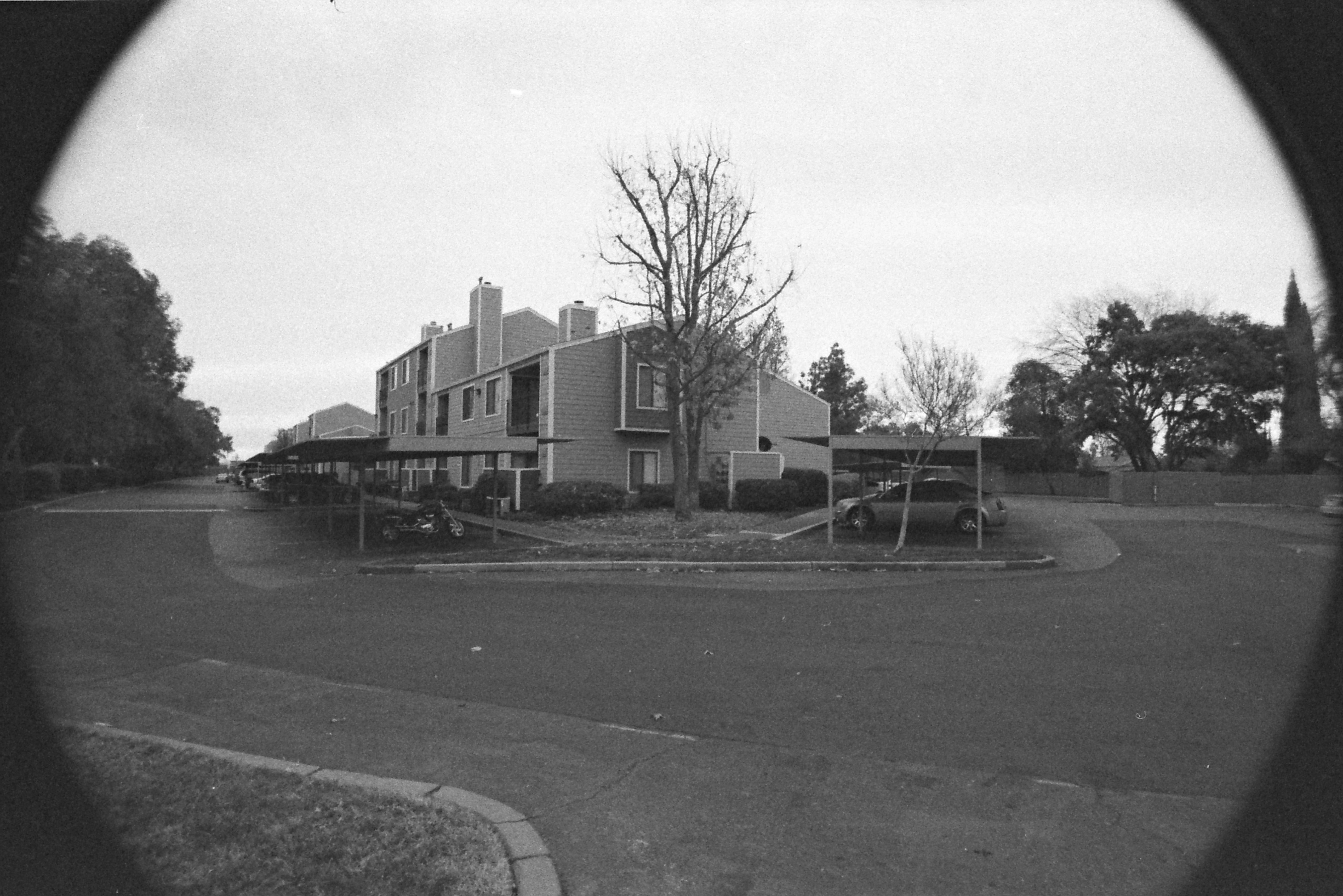 This was taken with a Nikon AF-S DX Nikkor 18-55mm f/3.5-5.6G VR lens mounted on a Nikon F2 camera. This image demonstrates the vignetting issue involved in using a lens meant for use only on DX/APS-C-sized sensors on a full 35mm film frame or full-frame/FX sensor. Kodak Tri-X film, ISO 400. Due to the F2's lack of ability to control the aperture on this lens, the aperture was at its smallest setting, about ƒ/36. No record was kept of the shutter speed, but it was probably around 1/100 to 1/50 of a second, based on the Sunny 16 rule and an ISO of 400. The focal length was set to 18mm. Through experimentation, I have determined that at focal lengths longer than about 24mm, this lens does, in fact, cover the full 35mm frame.